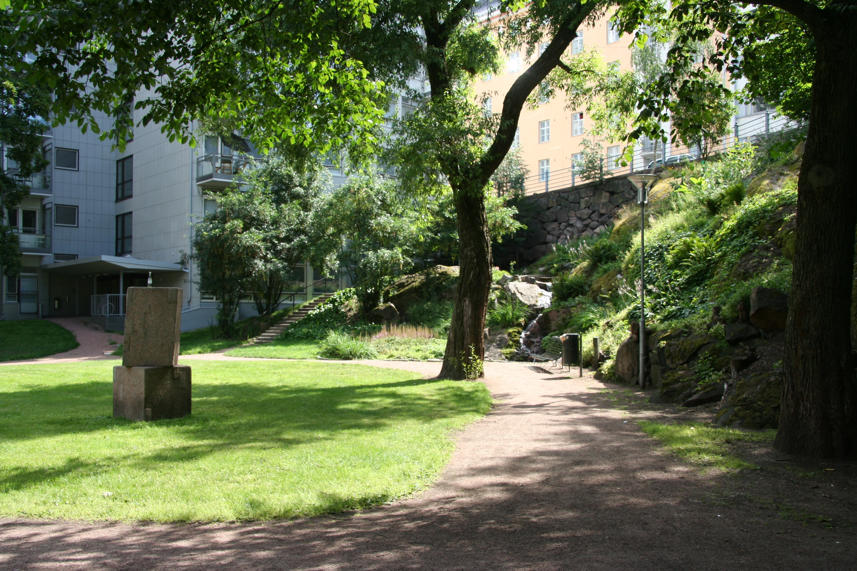 Tauno Palo park, Helsinki